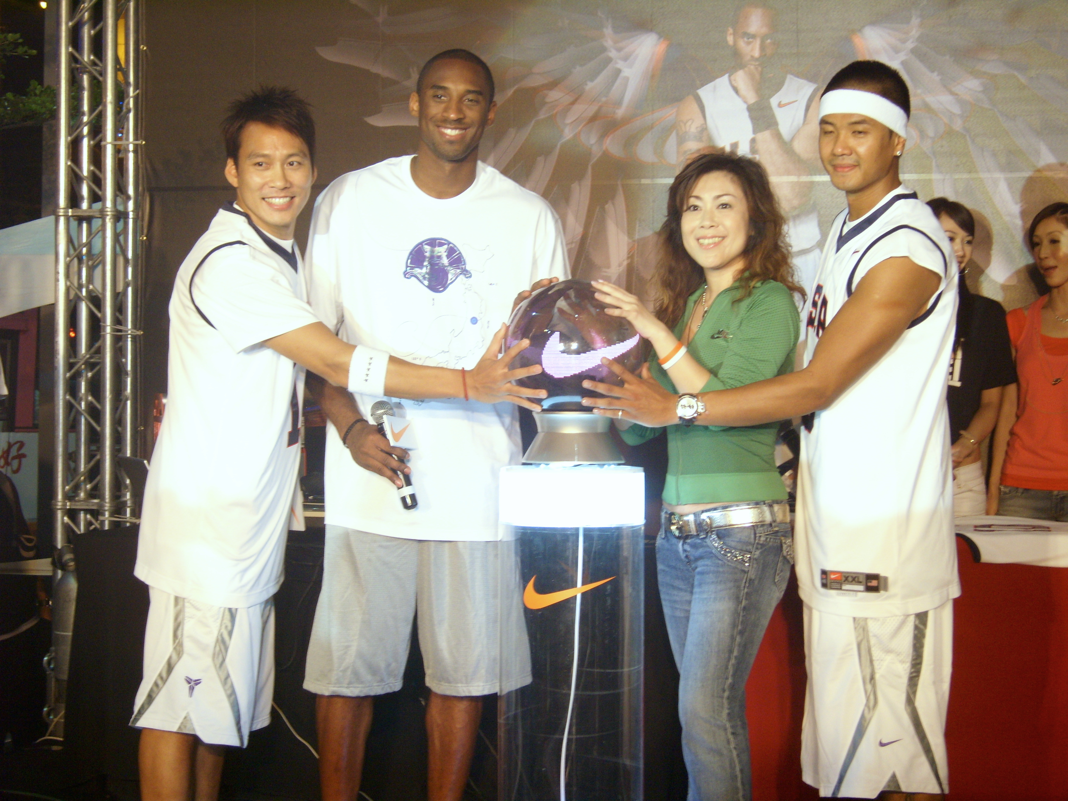 Kobe Bryant (center-left) participated NIKE Taipei Flagship Store Launch Ceremony at his 2007 Asia Tour.